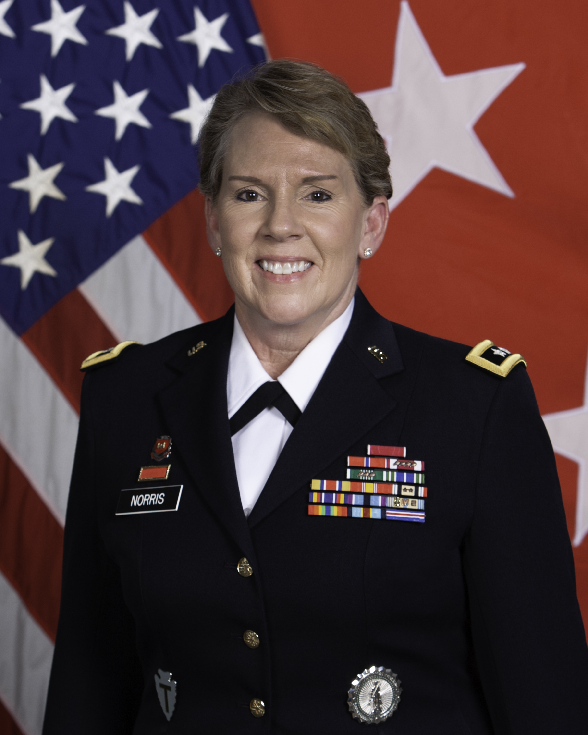 Major General Tracy R. Norris Texas Adjutant General